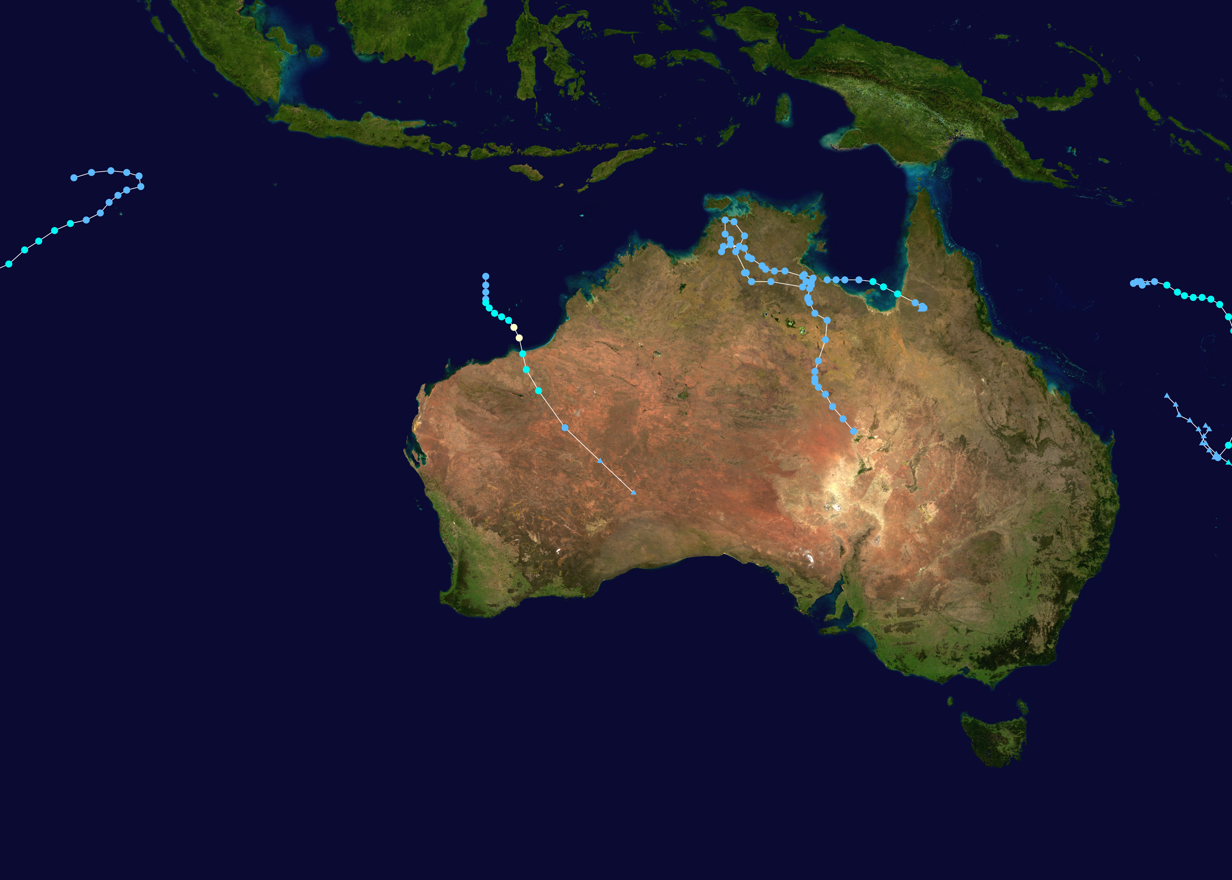 This map shows the tracks of all tropical cyclones in the 2015-16 Australian region cyclone season. The points show the location of each storm at 6-hour intervals. The colour represents the storm's maximum sustained wind speeds as classified in the Saffir-Simpson Hurricane Scale (see below), and the shape of the data points represent the type of the storm. Saffir–Simpson scale Tropical depression≤38 mph≤62 km/h Category 3111–129 mph178–208 km/h Tropical storm39–73 mph63–118 km/h Category 4130–156 mph209–251 km/h Category 174–95 mph119–153 km/h Category 5≥157 mph≥252 km/h Category 296–110 mph154–177 km/h Unknown Storm type Tropical cyclone Subtropical cyclone Extratropical cyclone / Remnant low / Tropical disturbance / Monsoon depression